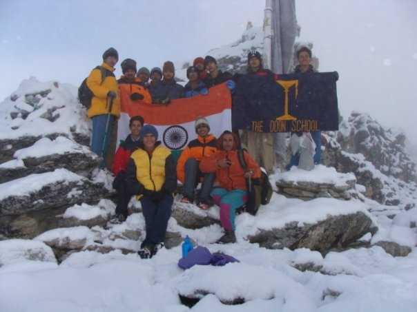 Doon @ Kala Patthar Peak